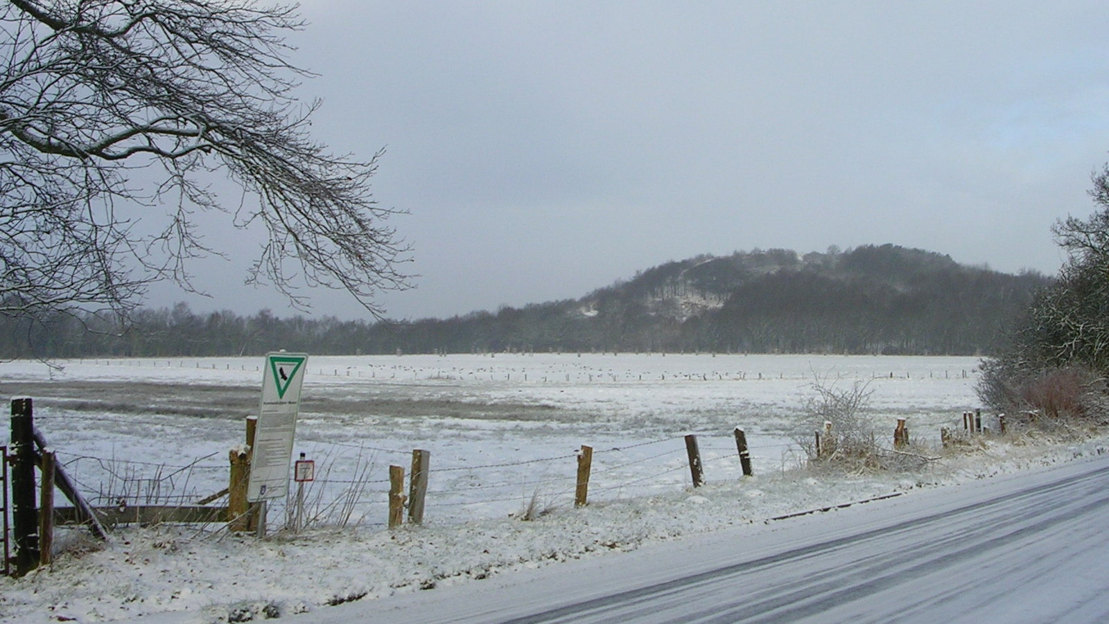 Former waste disposal site, nowadays recreation area; "Hummelsbütteler Moore" nature conservation area in the foreground